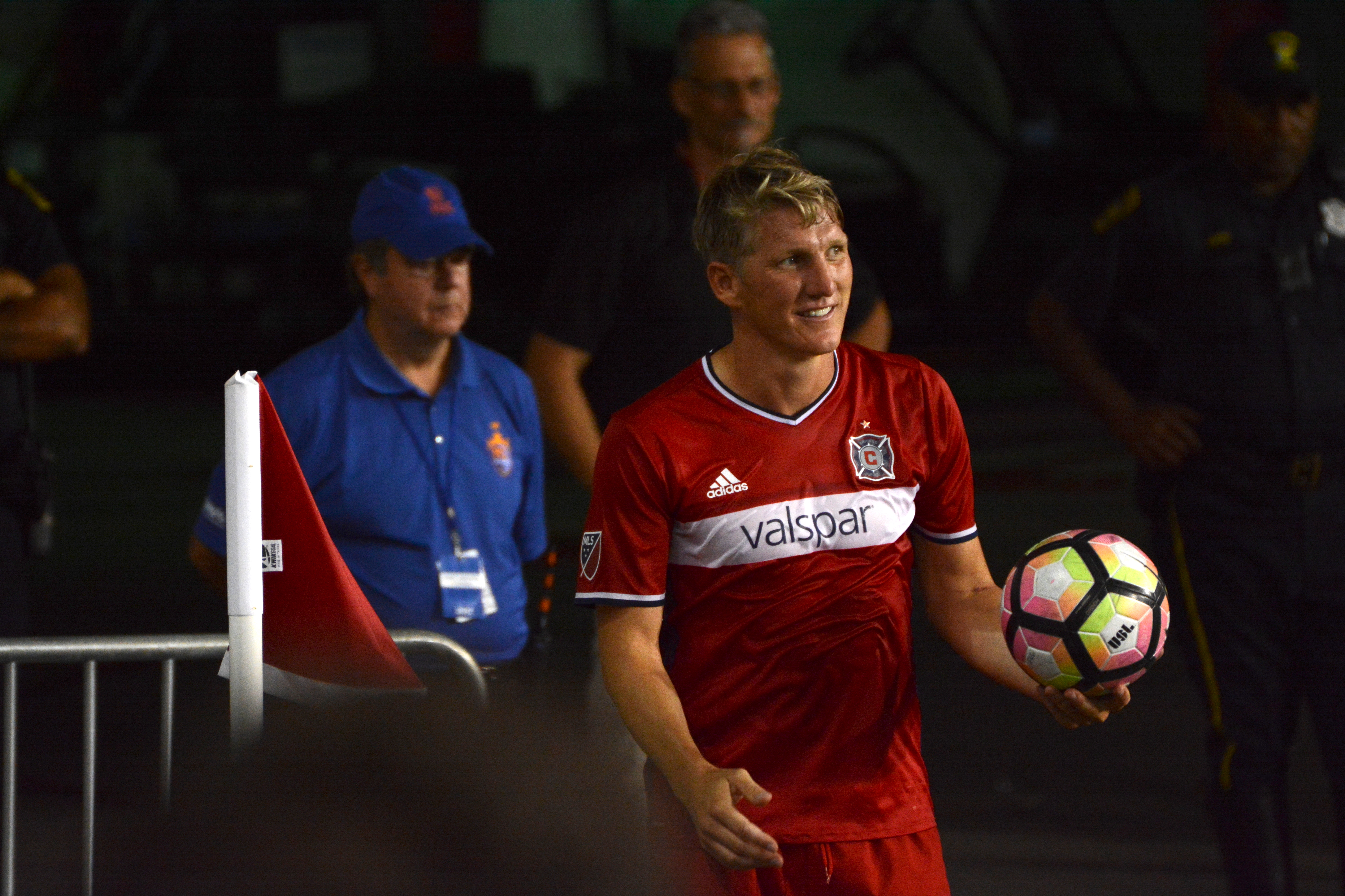 Bastian Schweinsteiger prepares to take a corner kick. Taken at a 2017 Lamar Hunt U.S. Open Cup match between FC Cincinnati and Chicago Fire SC at Nippert Stadium in Cincinnati, Ohio on June 28, 2017.